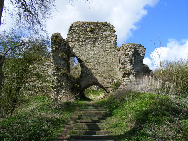 Entrance to Wigmore Castle The castle is mainly 14th century, although parts of the walls are Norman and the north east tower is 13th century. English Heritage have recently spent one million pounds on preservation and archaeological work at the castle in order to stabilise it.